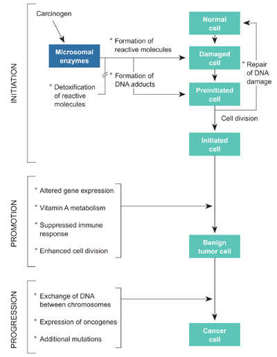 Three stages of carcinogenesis. Steps altered by alcohol consumption are marked by an asterisk.